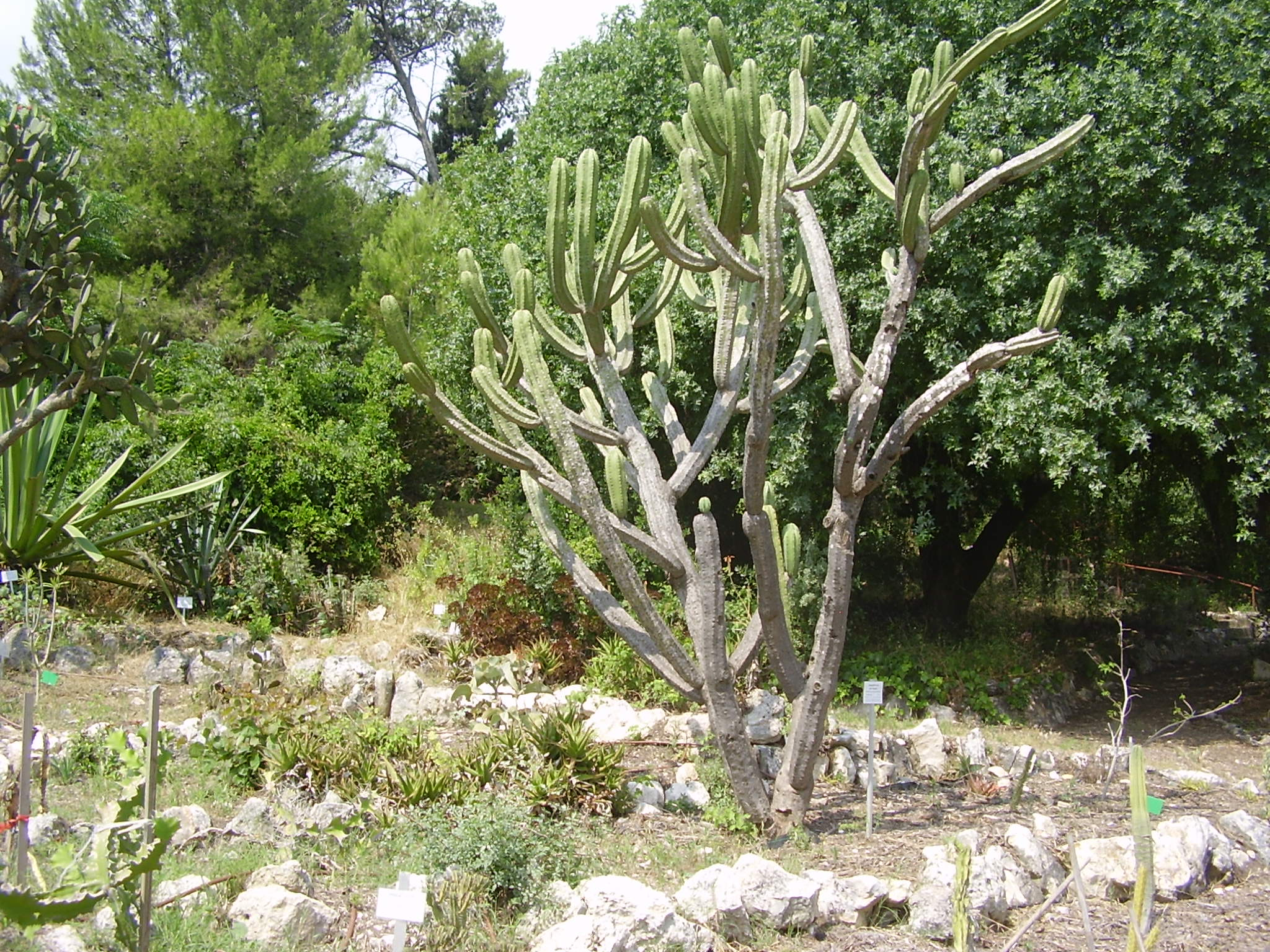 Oranim College Botanic Garden